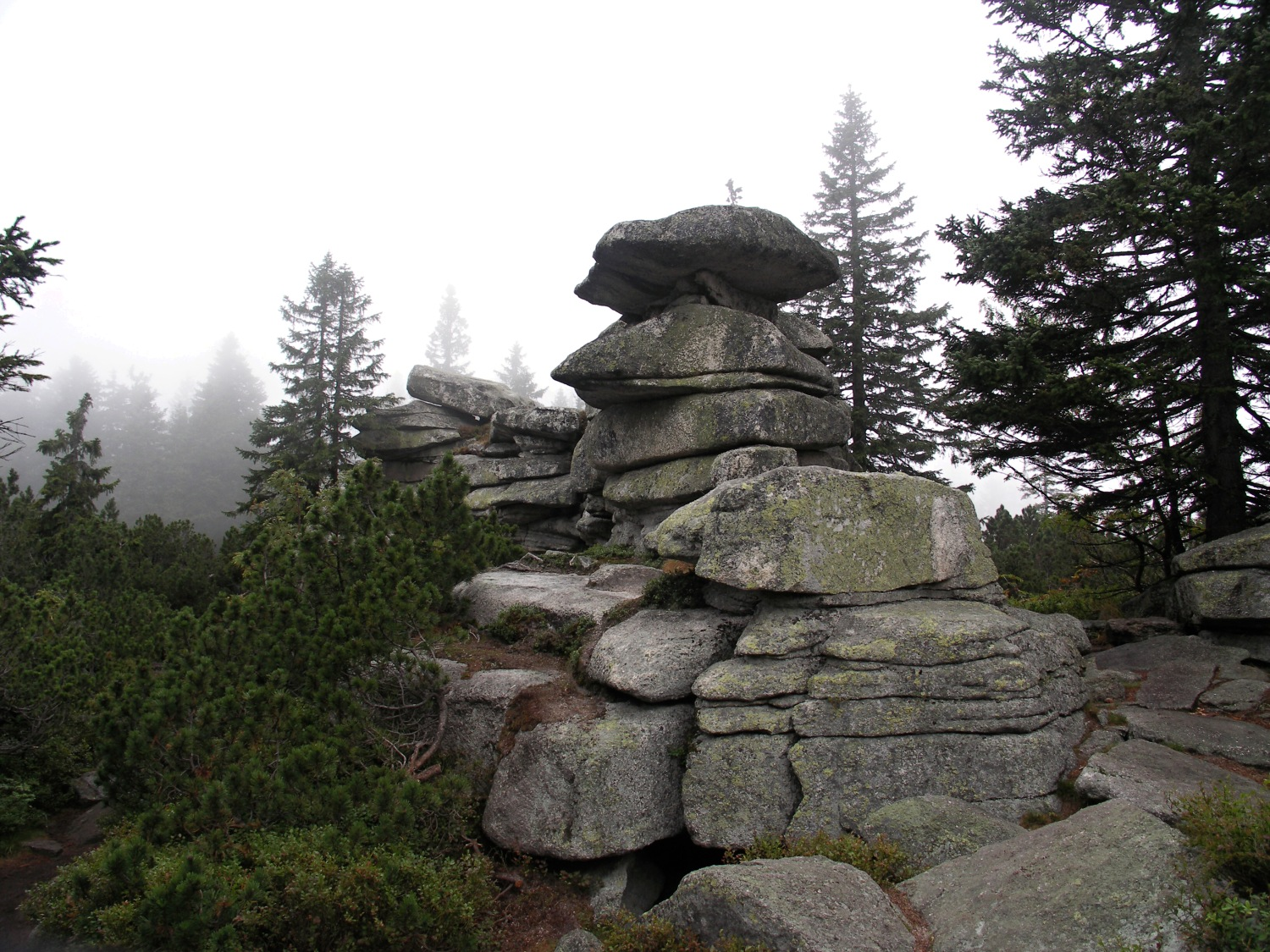 Trojmezná (1361 m) in Šumava Mts.